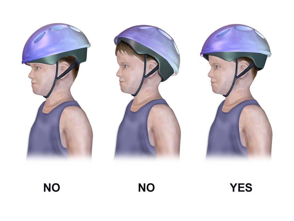 Bicycle Helmet - Correct vs. Incorrect Placement. [1]